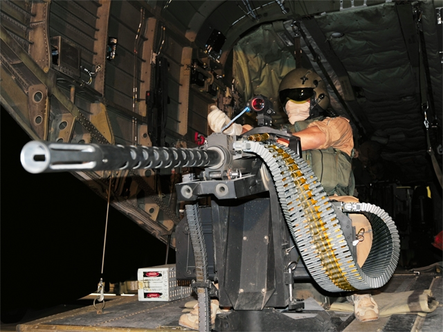 A German Army rampgunner mans an M3M onboard a CH-53GS helicopter.